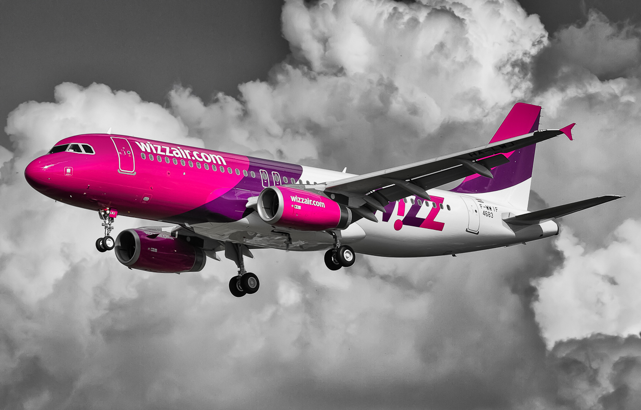 A320 Wizz Air